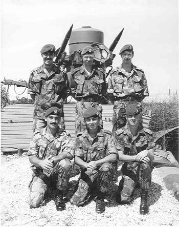 Belize in 1988, part of RAF regiment on their tour in front of Rapier missile.